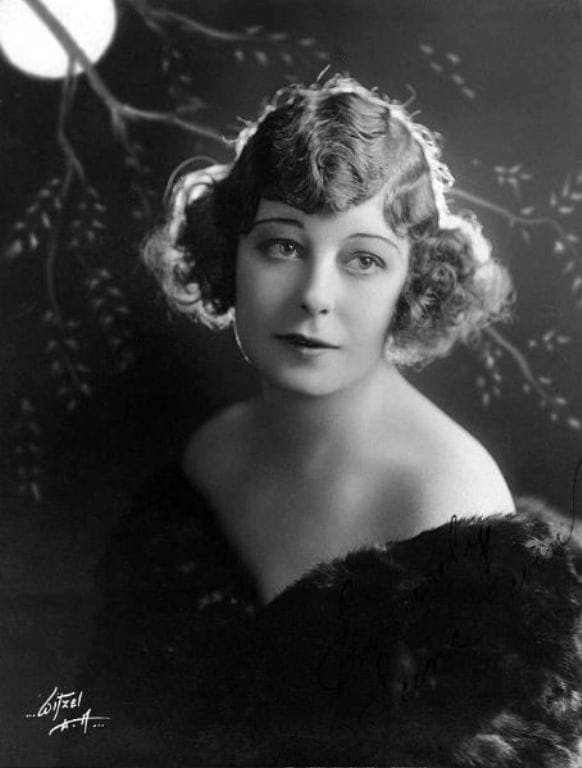 Promotional portrait of American actress Seena Owen (1894–1966) taken by Albert Walter Witzel (Witzel, L.A.)